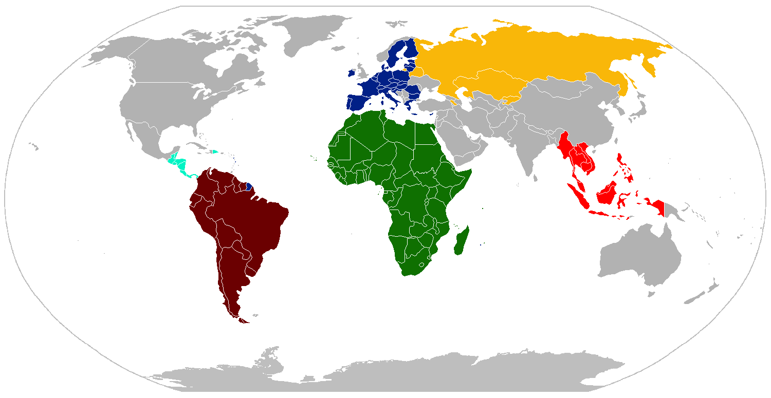 A color-coded world map showing existing continental unions. Eurasian Economic Union African Union European Union Union of South American Nations Central American Integration System Association of Southeast Asian Nations